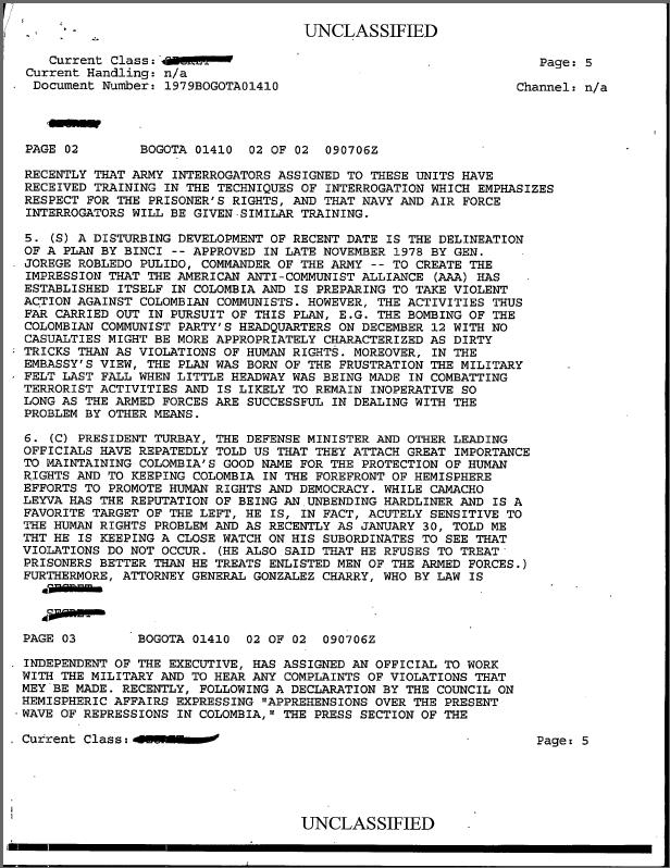 This image is of a declassified US government document, originating in the US Embassy in Bogota Colombia. The document is on display at the National Security Archives and at the following website: It documents the formation of the Alianza Americana Anticomunista (AAA) and will be used in that article as well as those discussing the formtaion of the AAA.